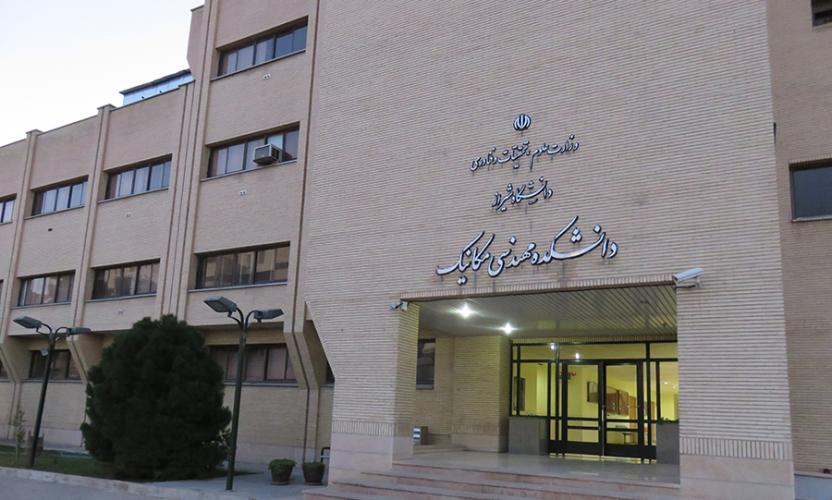 Mechanical engineering